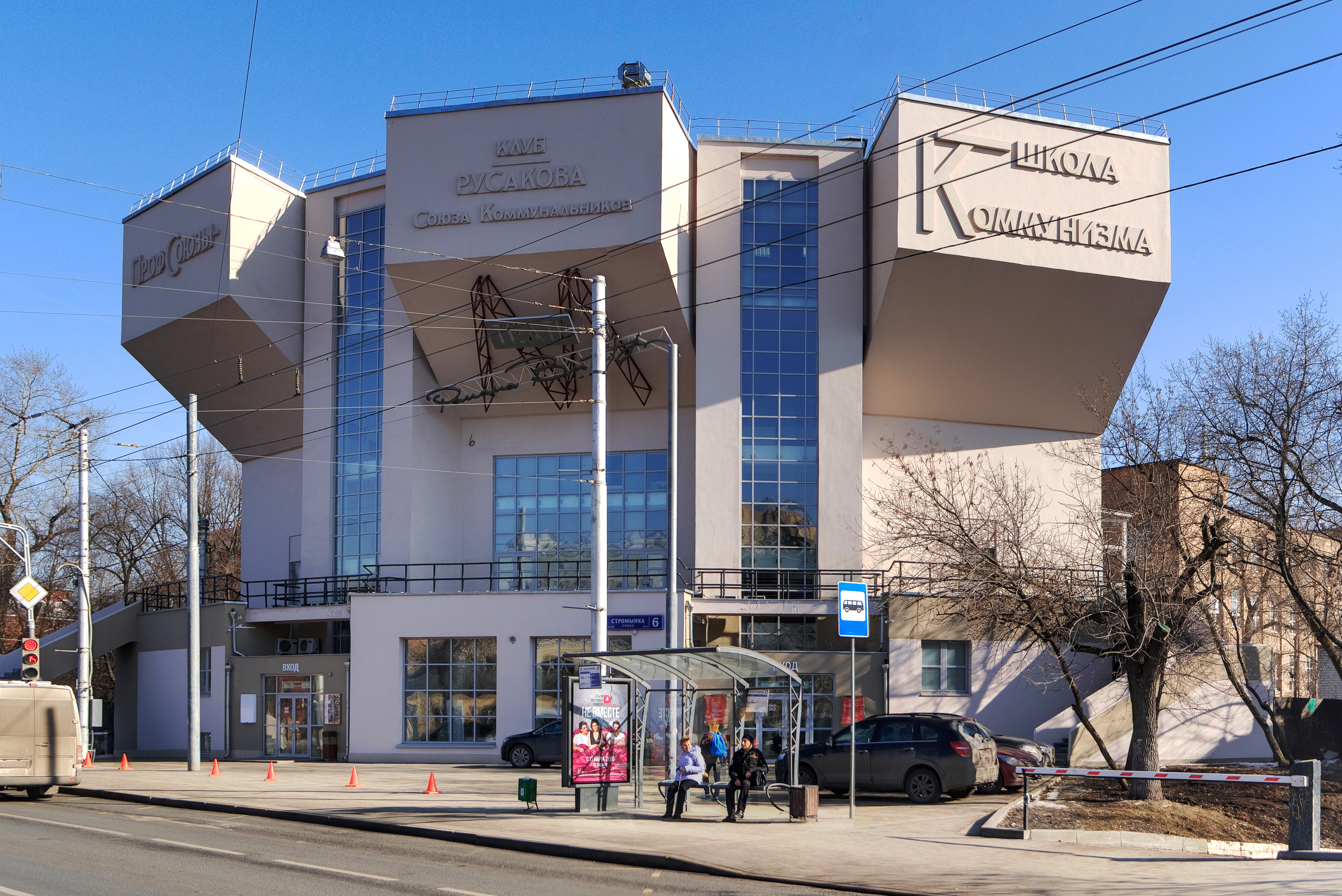 Rusakov Workers' Club, Stromynka Sreet 6, Moscow